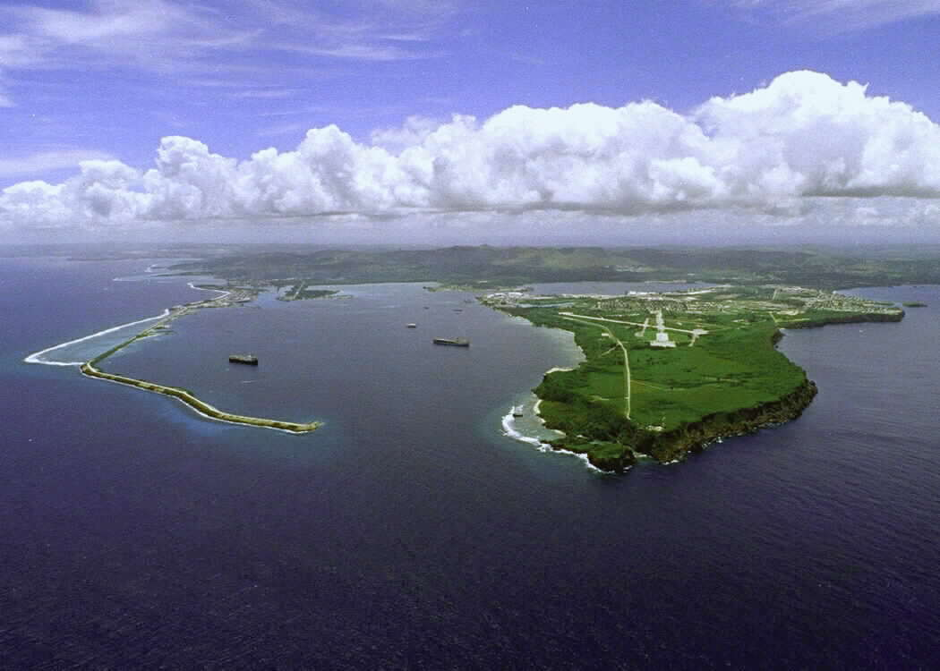 Aerial Photo of Apra Harbor